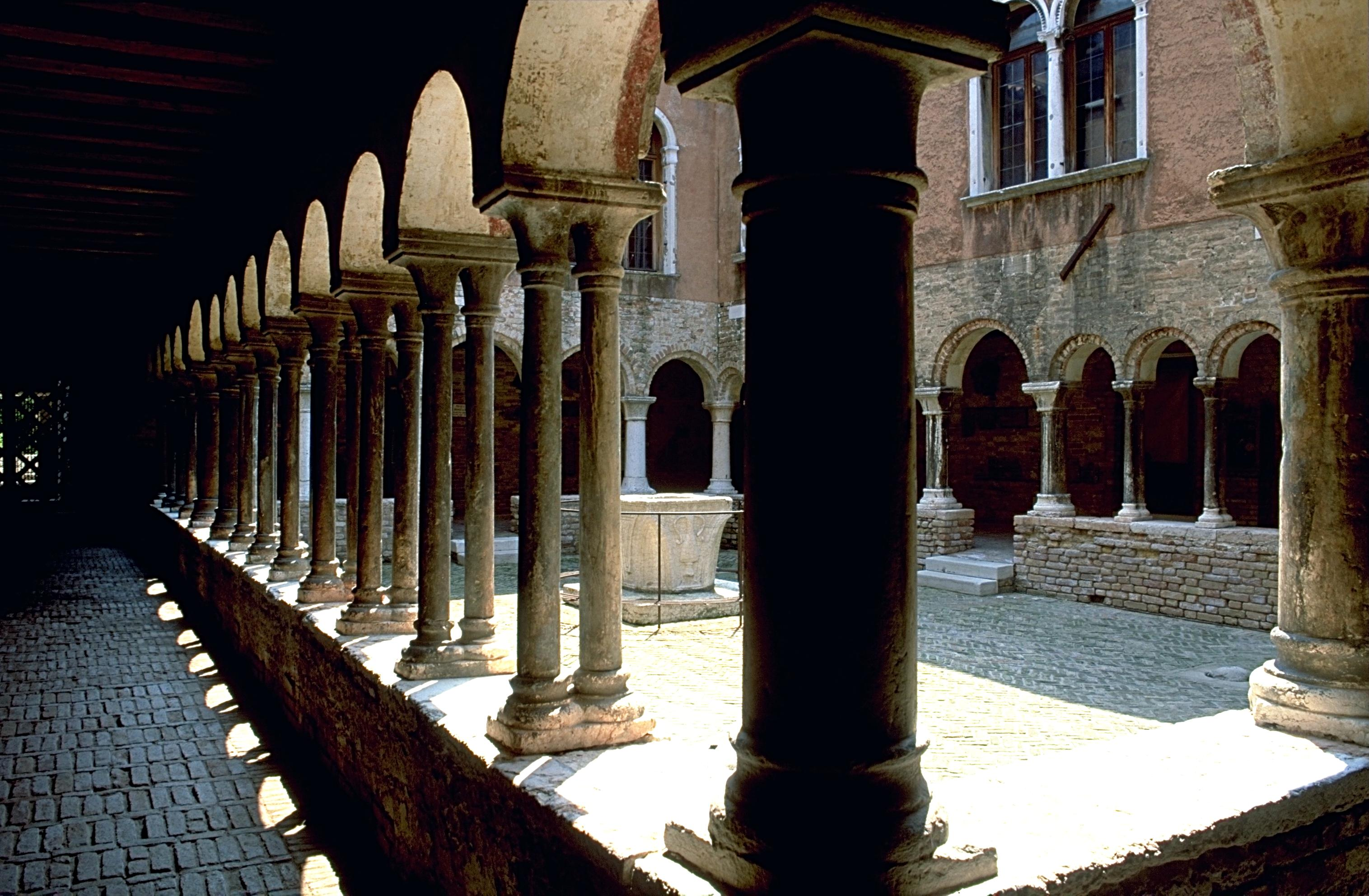 Sant'Apollonia, Venice Photo was taken using the following technique: Film: Fuji Velvia Lens: 2.8/28 Filter: none Body: Minolta 9000 Support: Manfrotto 190B Image with Information in English Bild mit Informationen auf Deutsch